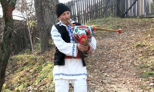 Romanian cimpoi player